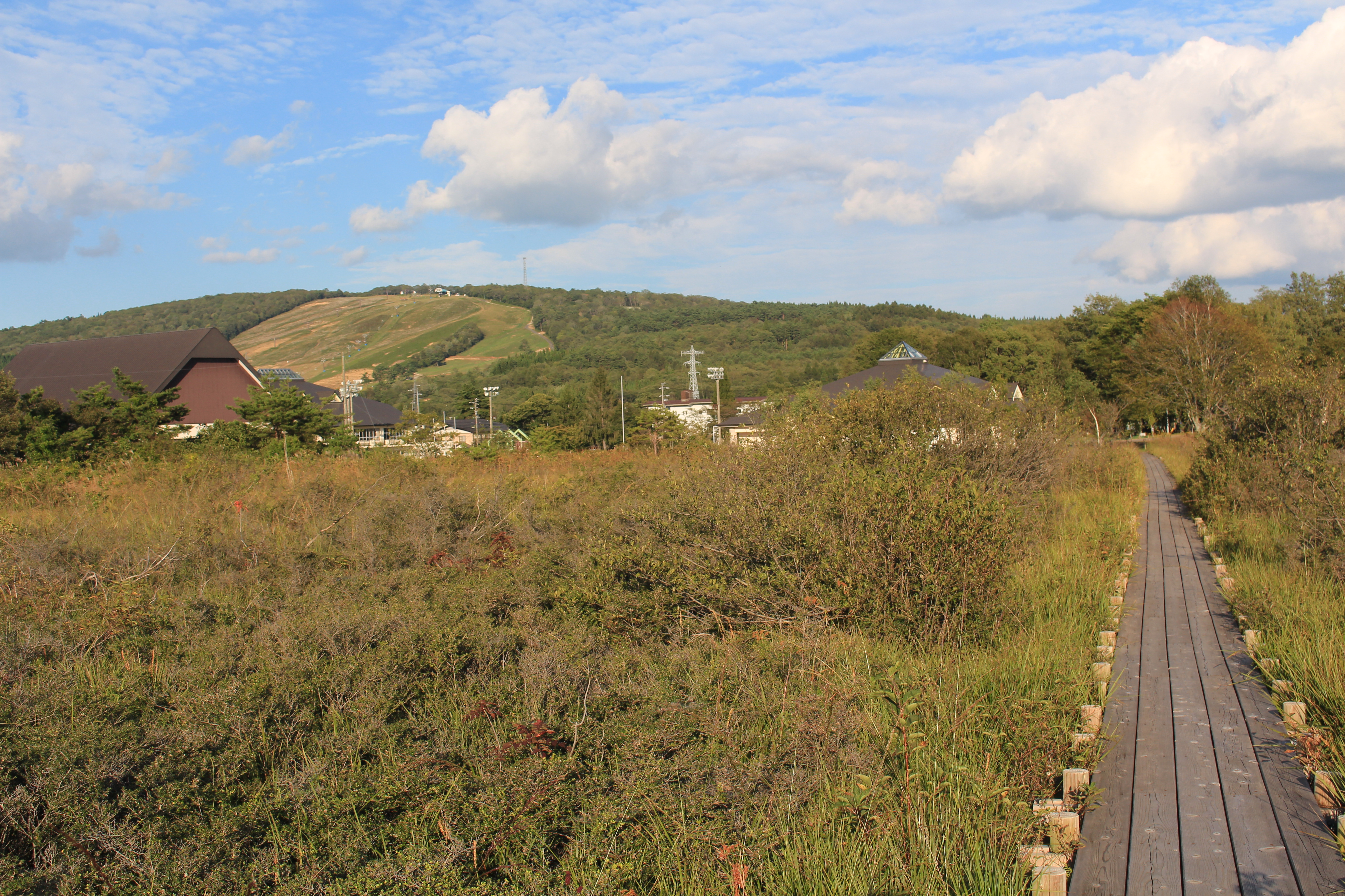 Hiruganokogen Ski resort and Hirugano-shitsugen Botanical Garden in Gujō, Gifu Prefecture, Japan.